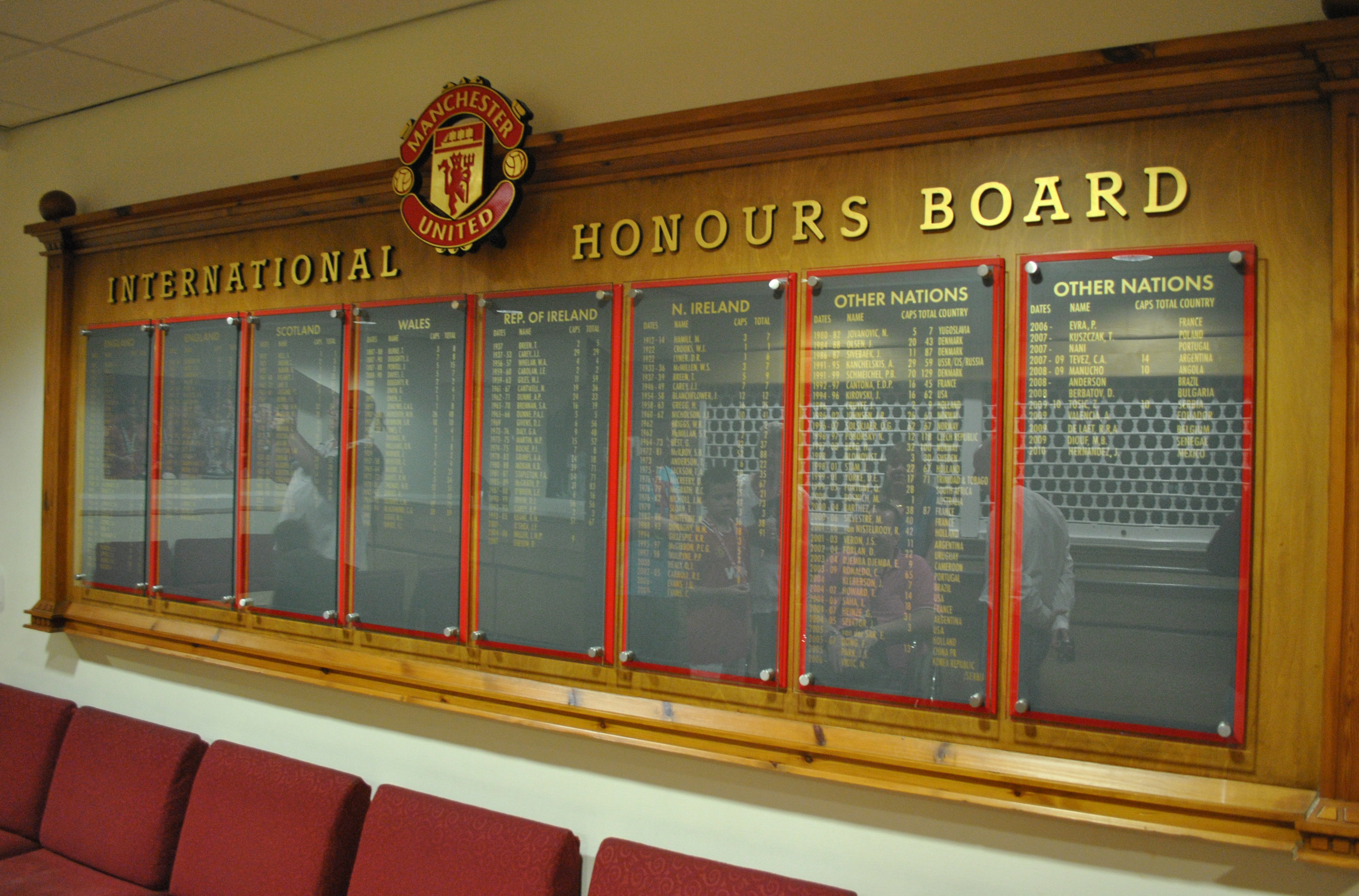 Manchester United International Honours Board at Old Trafford, Manchester, England.